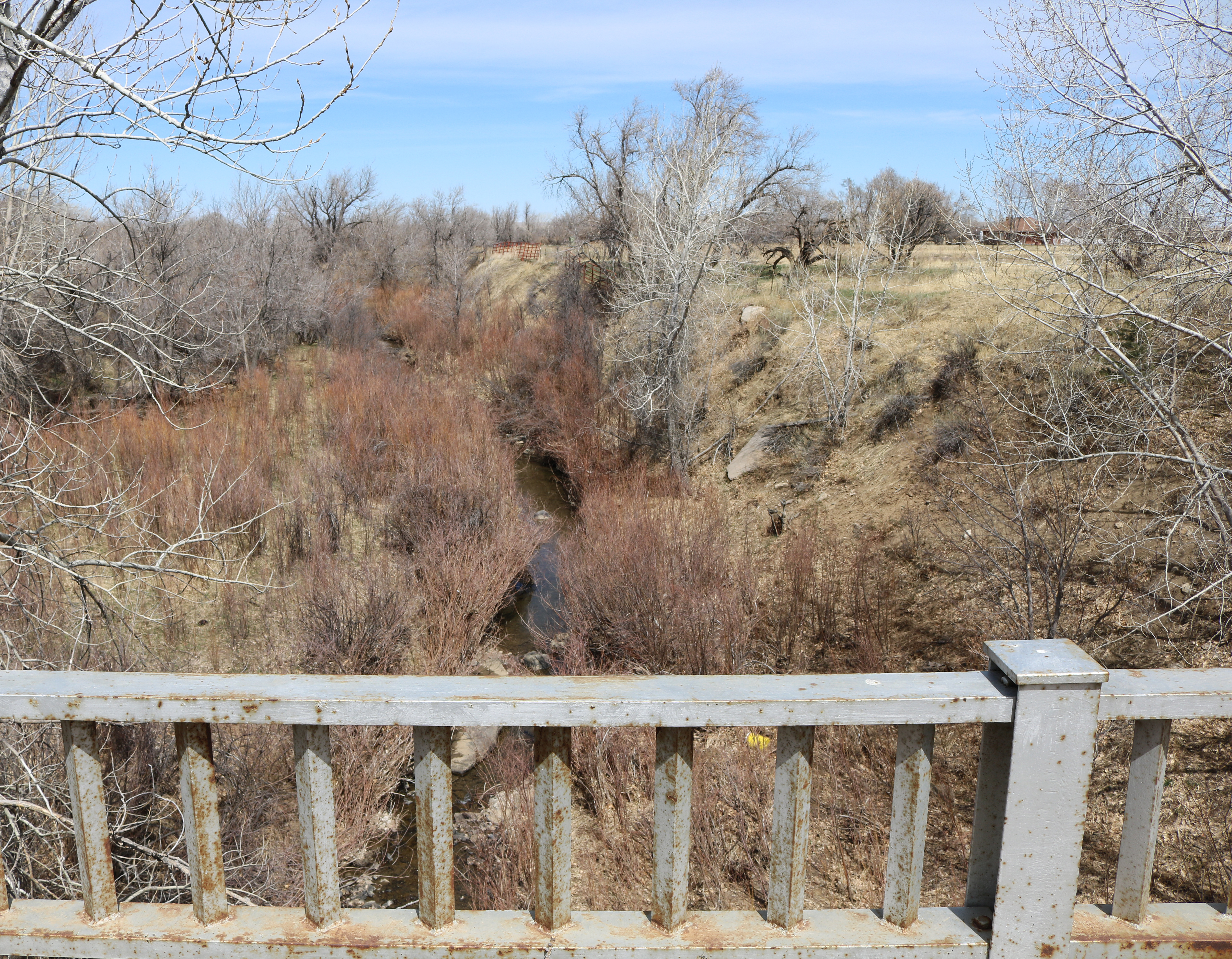 The Apishapa River, viewed from a bridge on County Road 63.1, just south of Aguilar, Colorado.